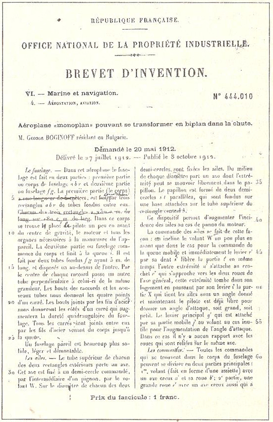 Patent of Georgy Bozhinov